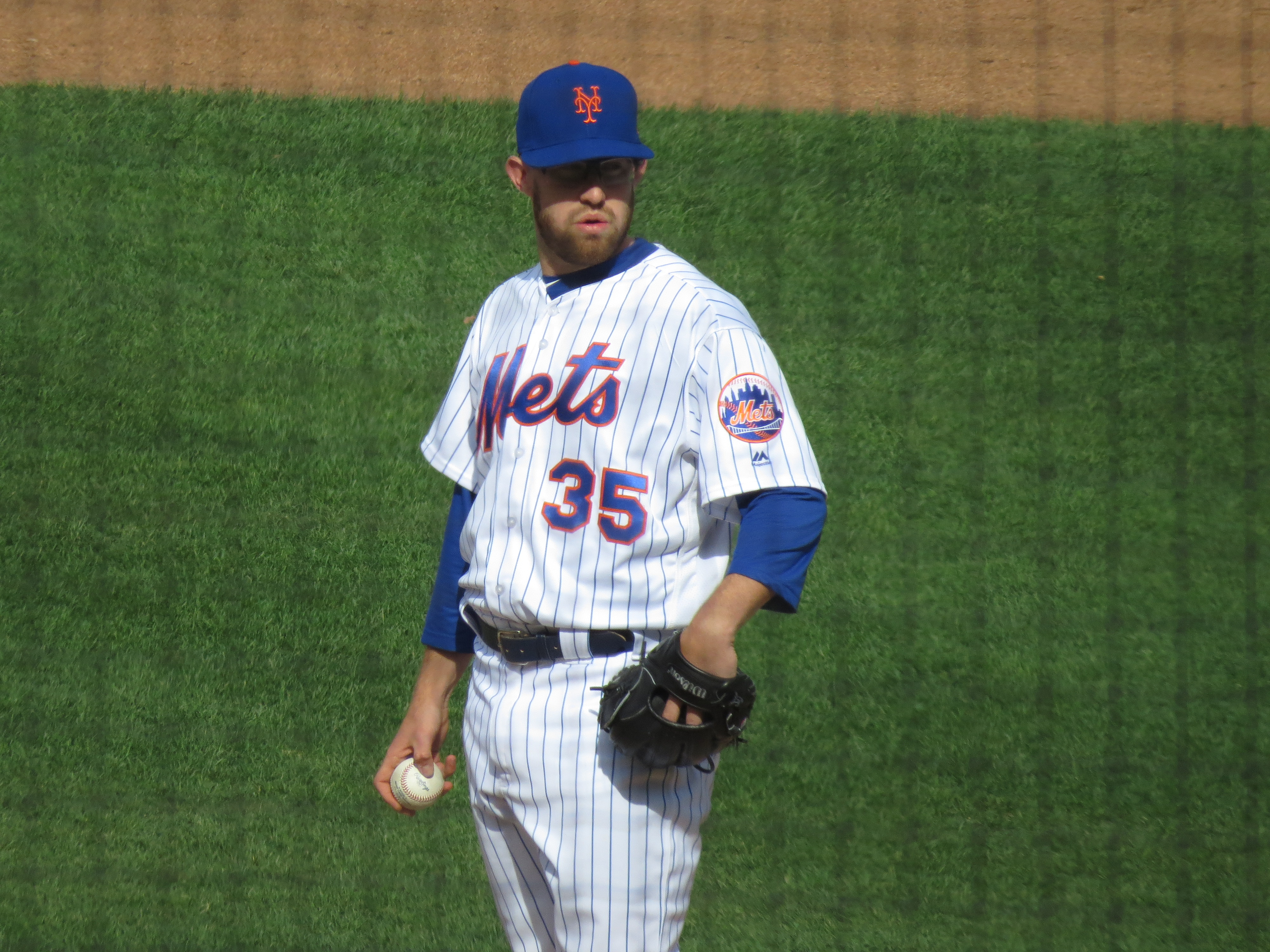 Jacob Rhame on April 1, 2018